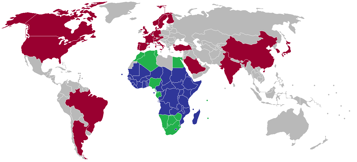 map of African Development Bank members (African Development Bank members in green, African Development Fund members in blue, non-african members in red; based on Image:No colonies blank world map.png